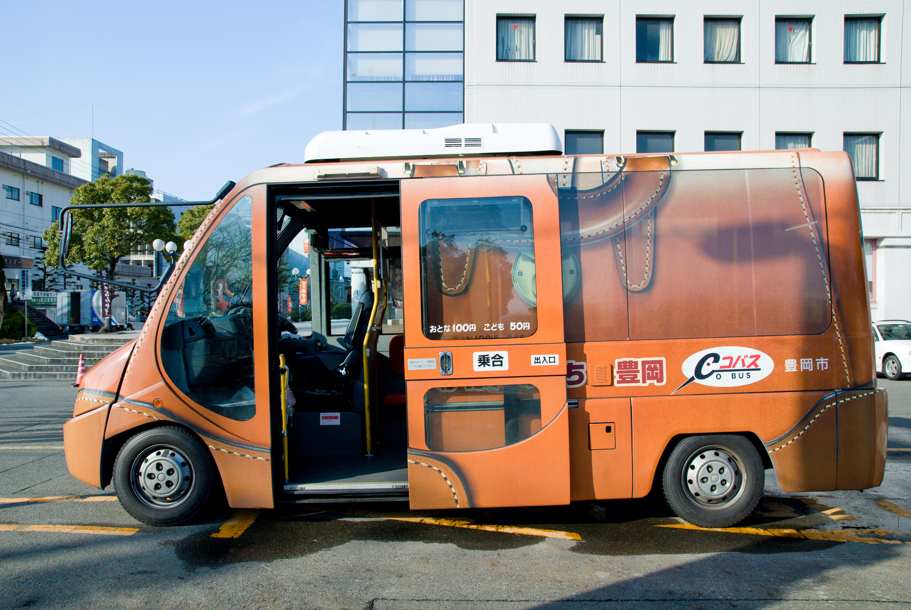 Community bus "Cobasu" in Toyooka, Hyogo prefecture,Japan.